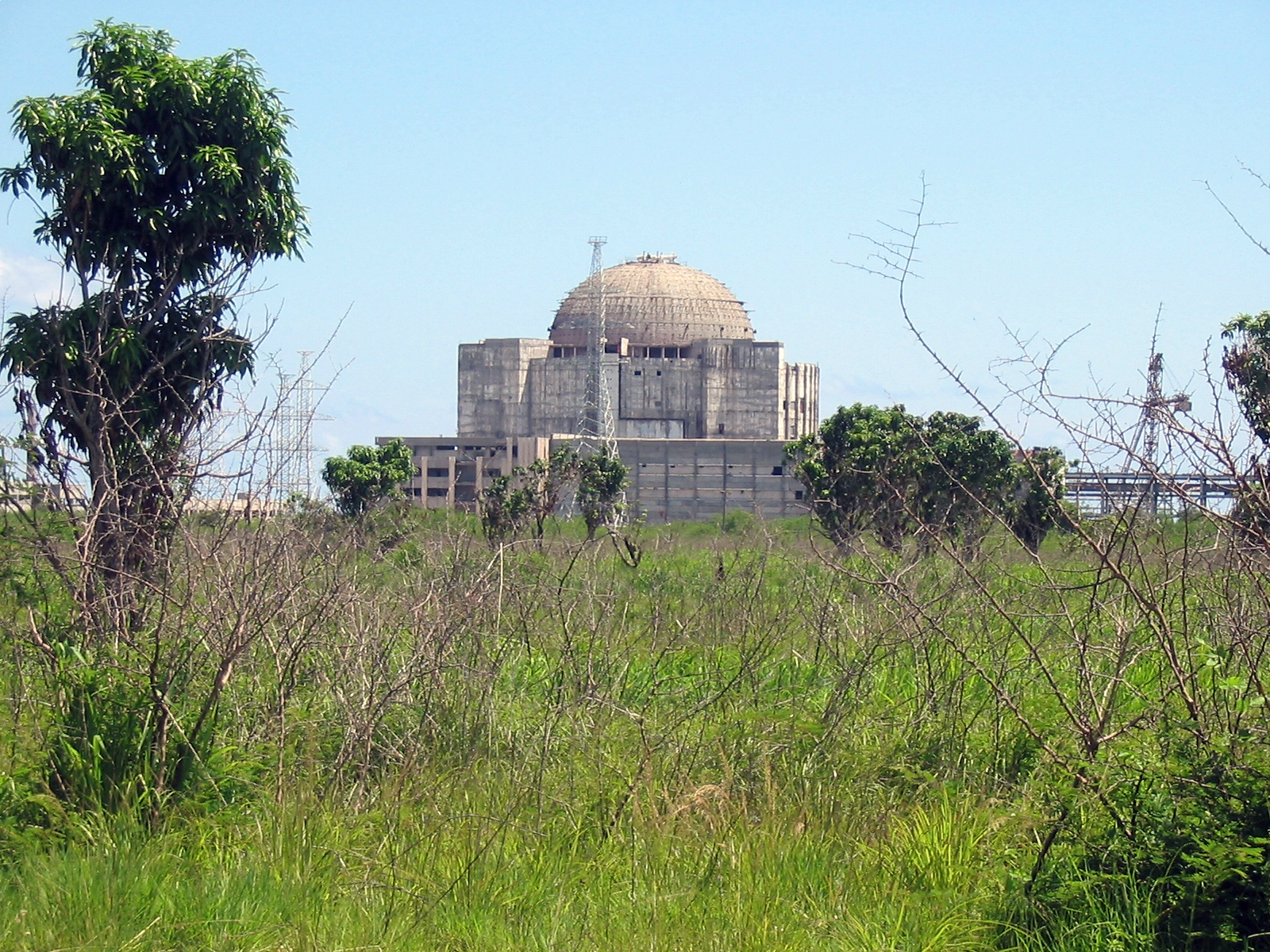 Located near the coast somewhere just west of Castillo de Jagua near Cienfuegos. We snapped this photo as we were going by on a little scooter. This is an unfinished nuclear power plant in Cuba that was supposed to be built with Soviet technology in the early 1990s but was scrapped due to the collapse of the USSR.